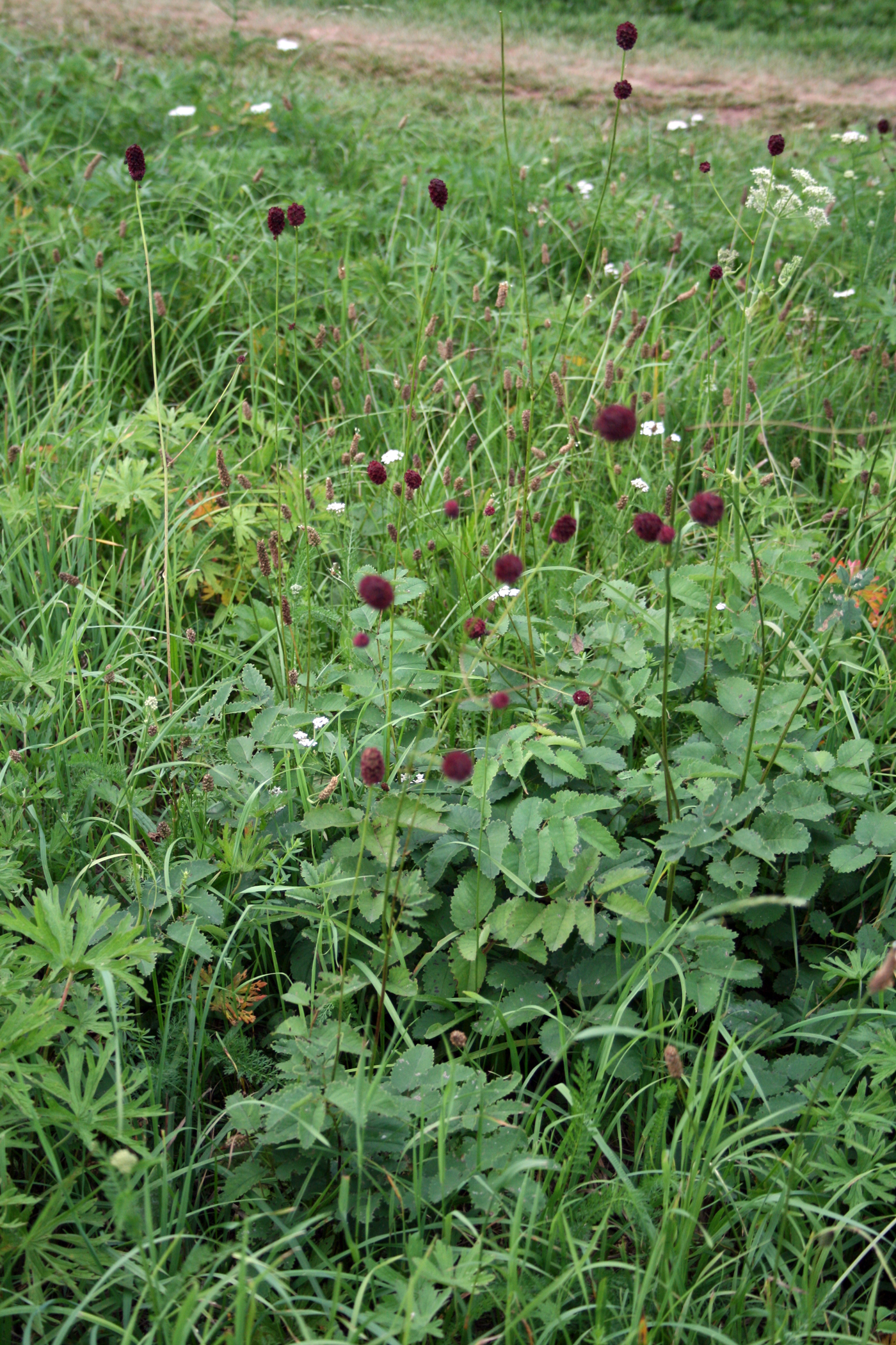 Sanguisorba officinalis, East Bohemia, central Europe Krvavec toten Date= July 2007 Author=Karelj